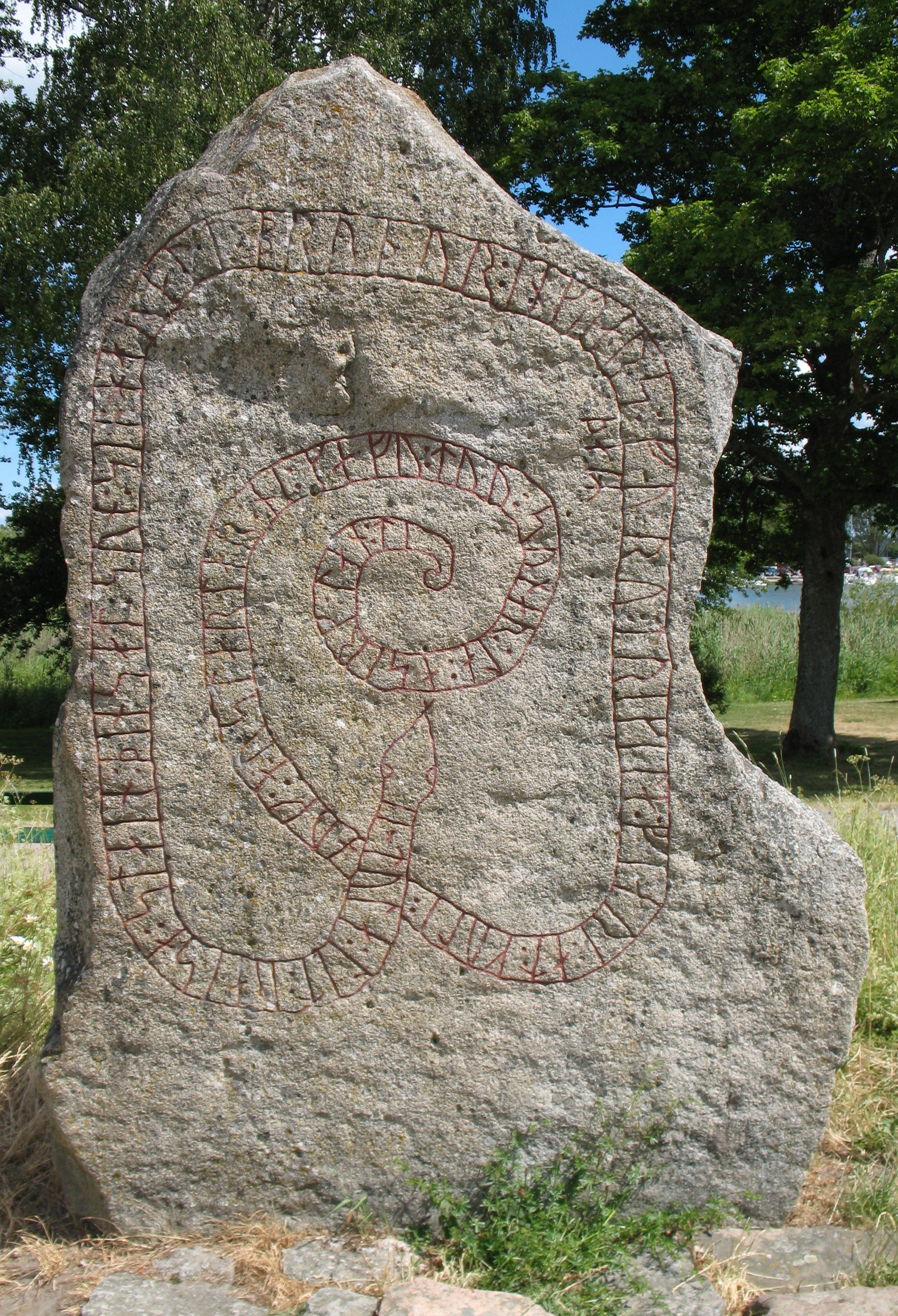 Runestone Sö 179 at Gripsholm, Södermanland, Sweden.